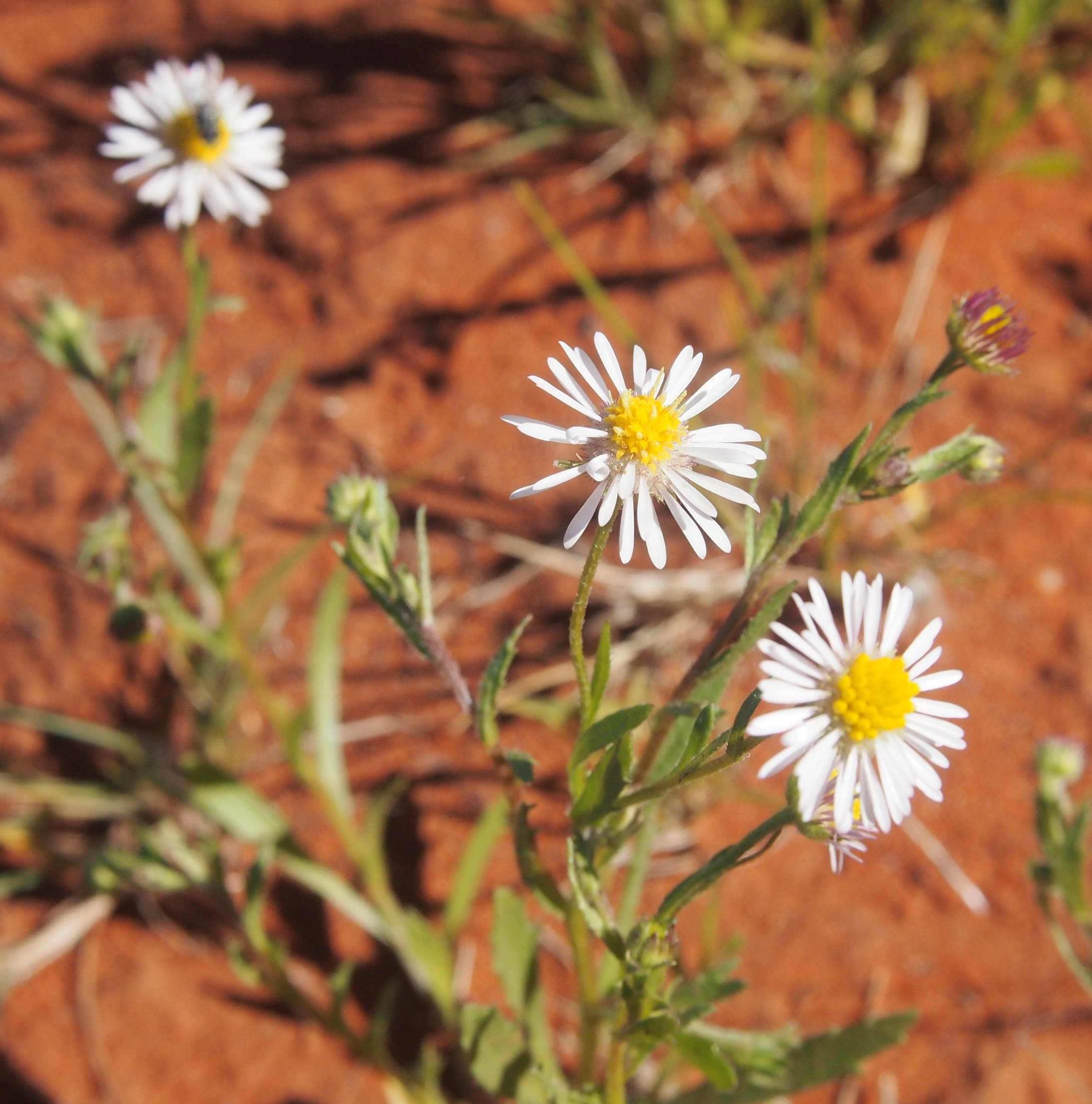 Vittadinia arida flowers